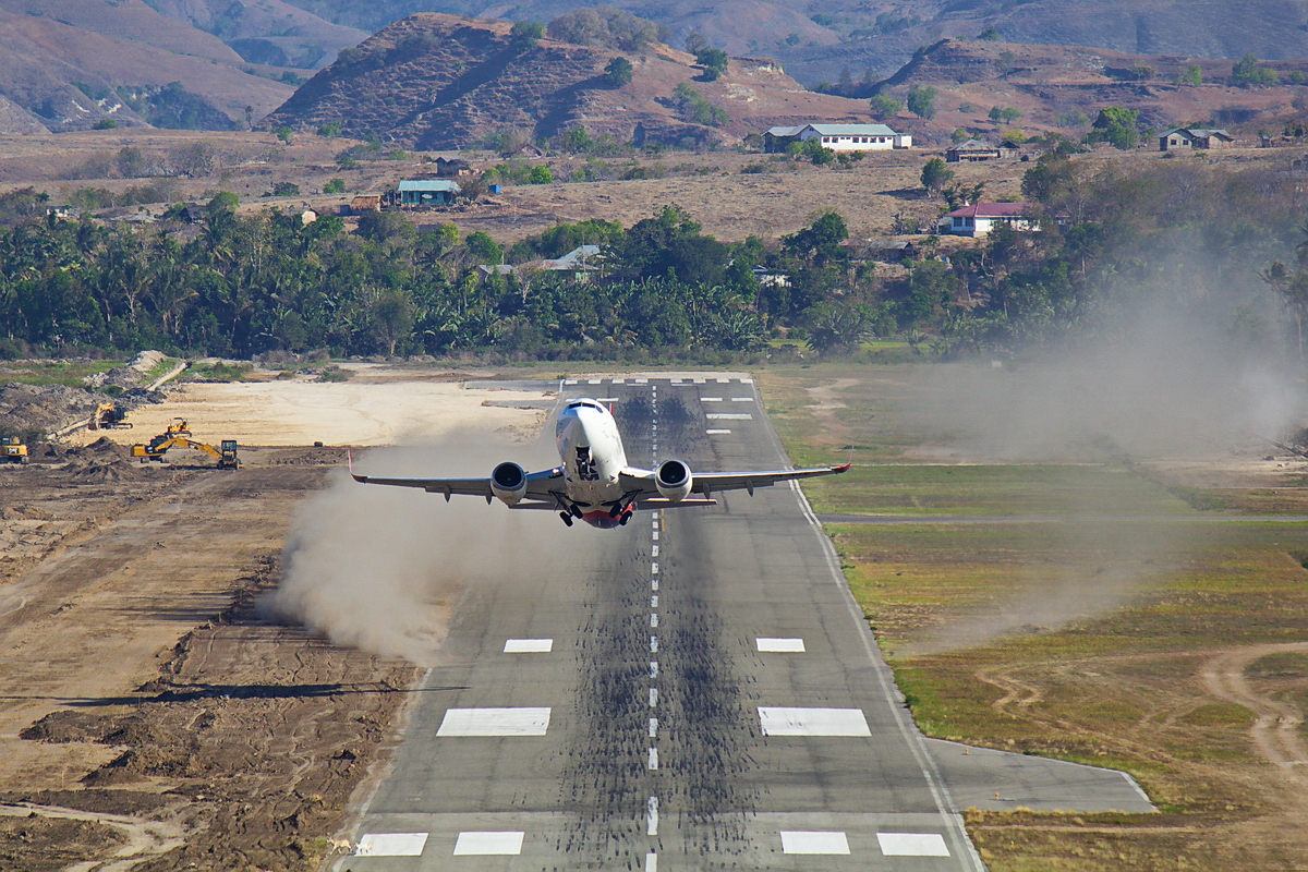 NAM Air Boeing 737-500 (PK-NAN) taking off from Runway 33 at Mau Hau Airport